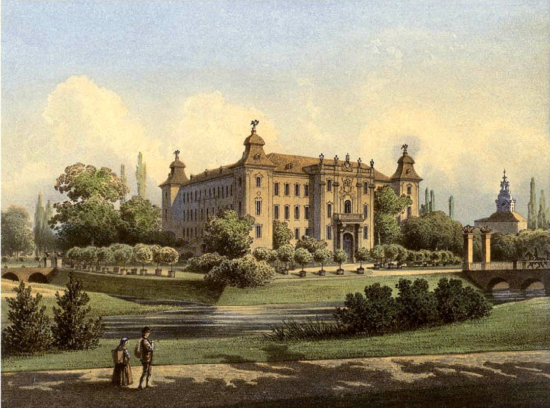 Sułkowski Castle in Rydzyna, Poland